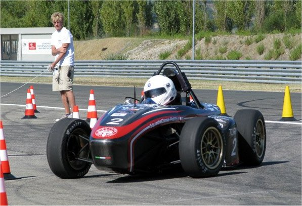 SquadraCorse Polito during Formula SAE Italy's skid-pad event